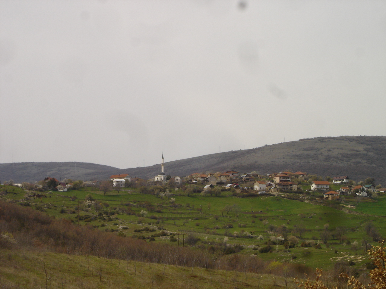 Village of Jabolci seen from southeast